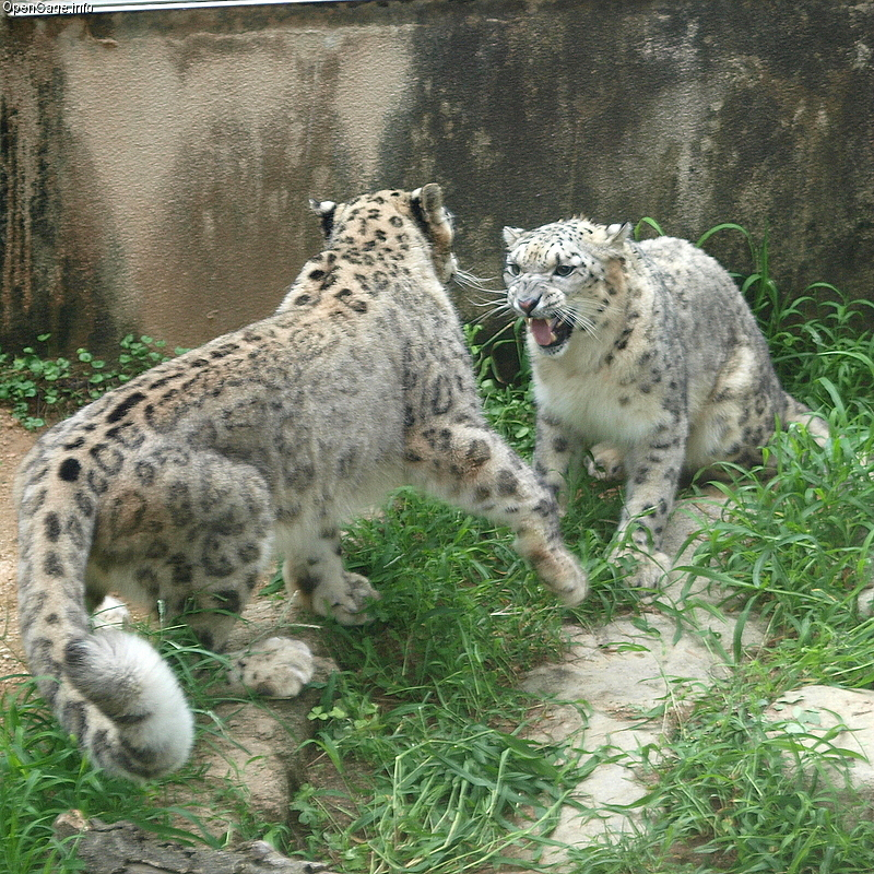 Snow leopards fighting.